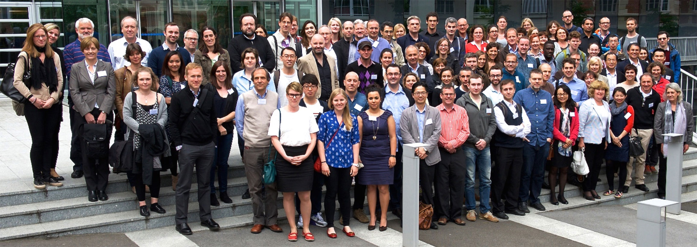 Group photo of participants of the 2-day GISAID workshop on next generation sequencing (NGS) held at the Institute Pasteur, Paris.